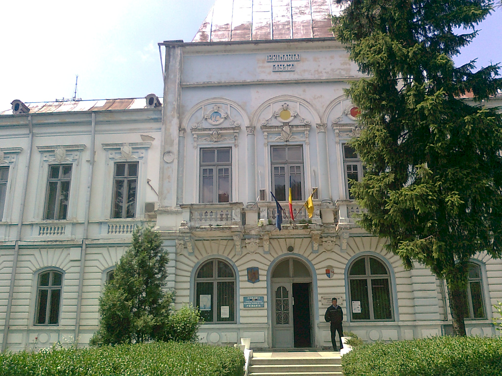 The city hall of Roșiorii de Vede, historical building.